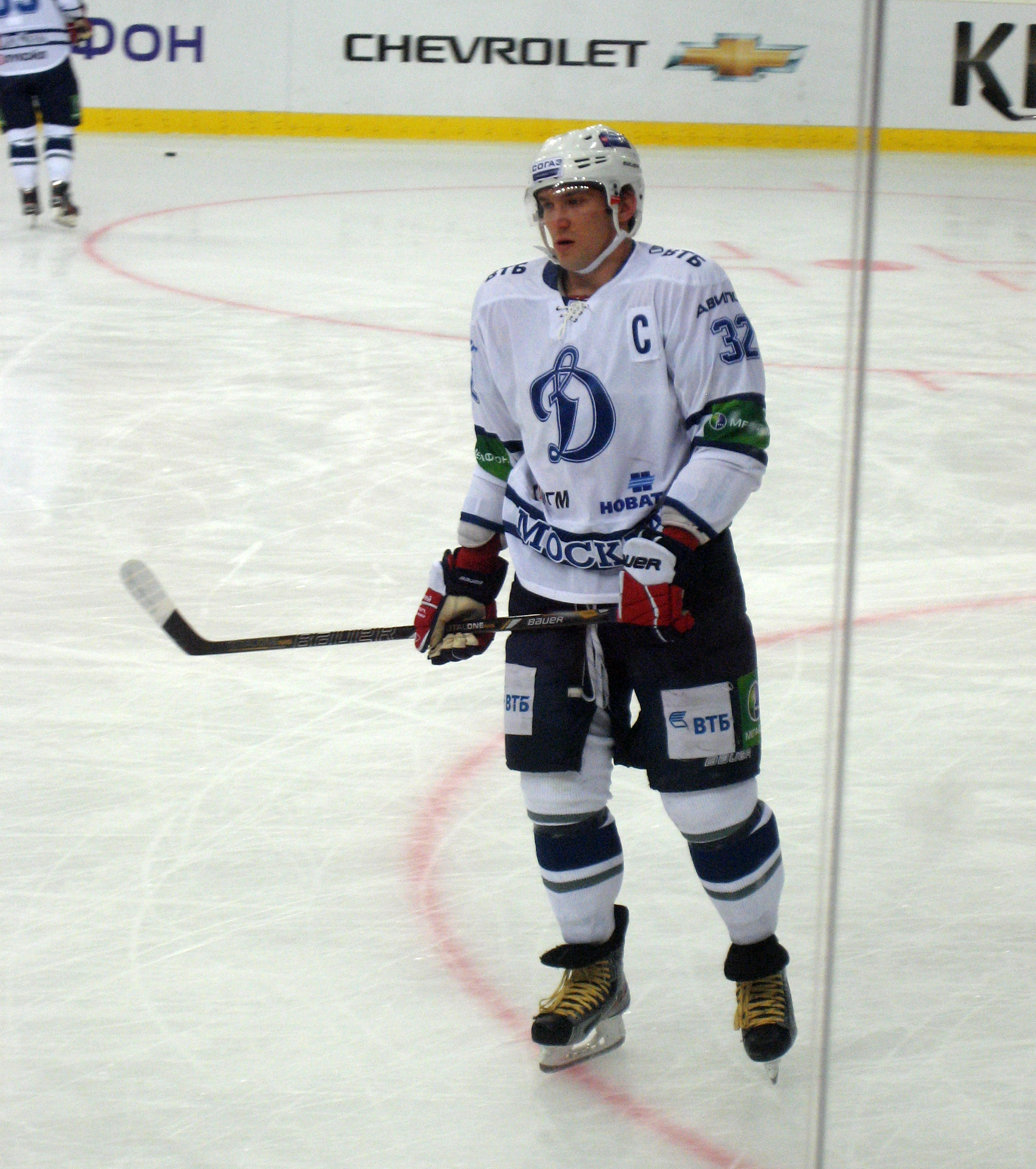 Alexander Ovechkin Dinamo Moskow